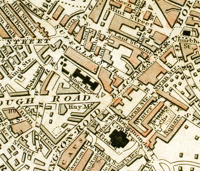 King's Bench Prison and Horsemonger Lane Gaol section of "Improved map of London for 1833,from Actual Survey.